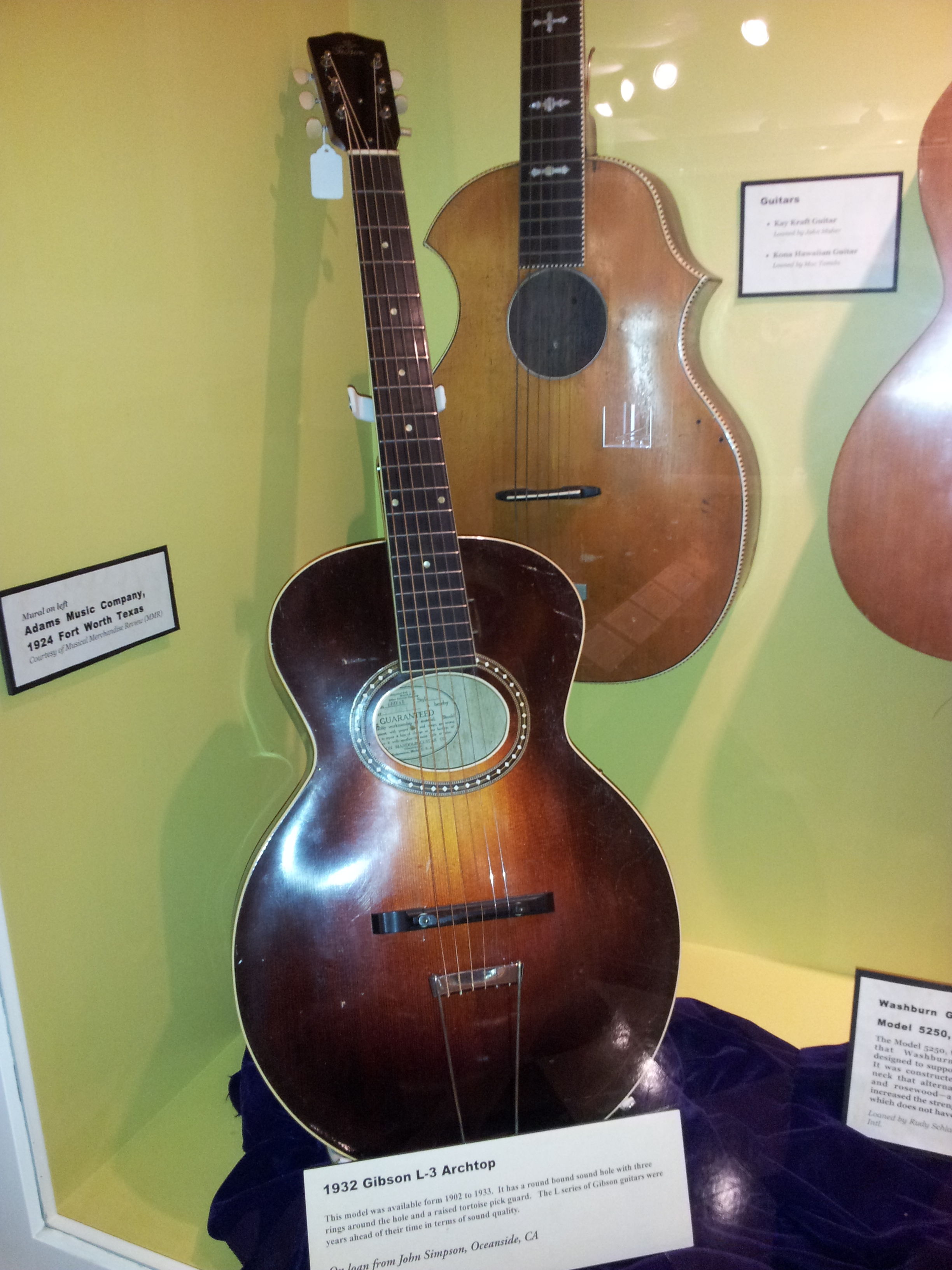 Museum of Making Music 1932 Gibson L-3 Archtop This model was available from 1902 to 1933. It has a round bound sound hole with three rings around the hole and a raised tortoise pick guard. The L series of Gibson guitars were year ahead of their time in terms of sound quality. .. loan from John Simpson, Oceanside, CA